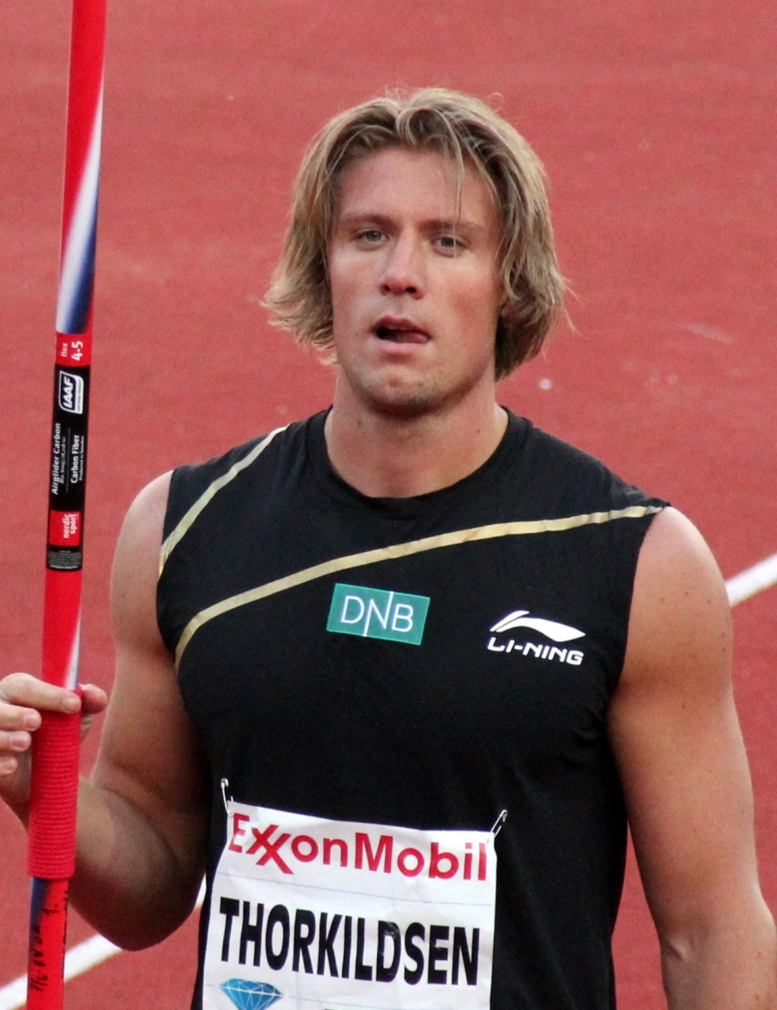 Andreas Thorkildsen under 2012 Bislett Games (reduced resolution)